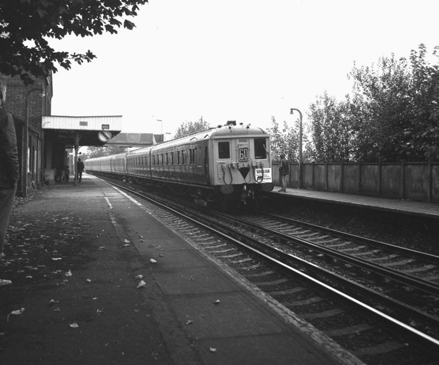 Hackbridge station